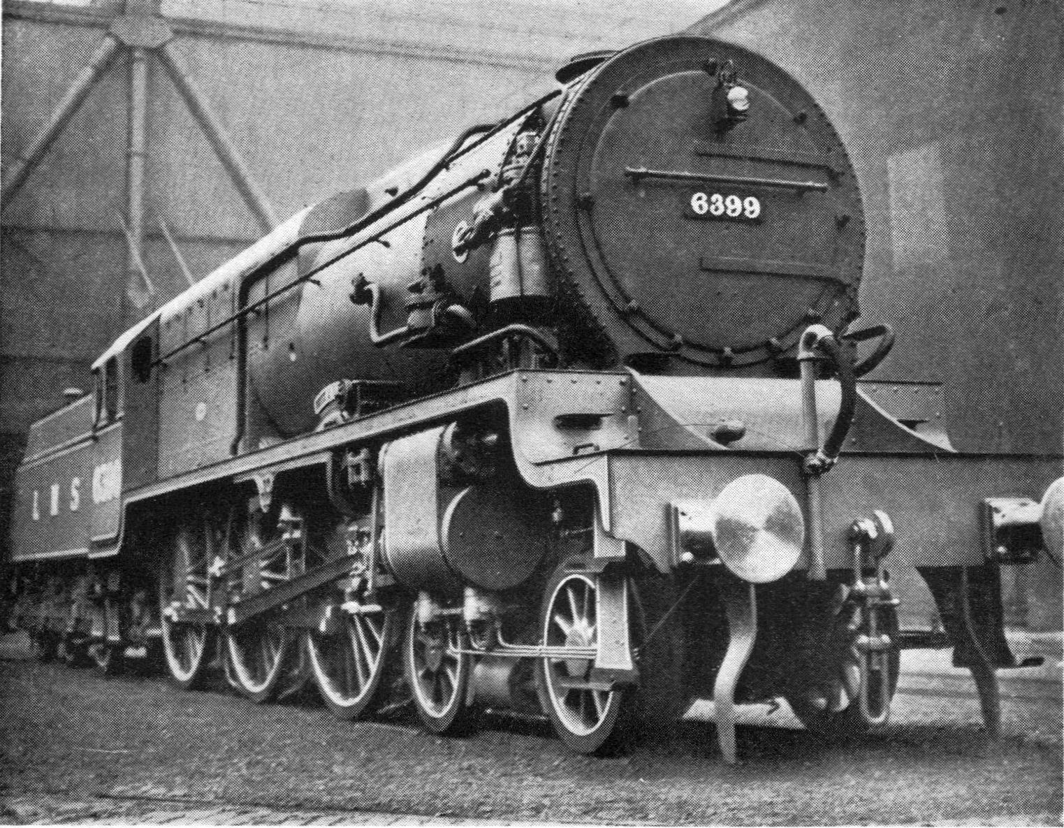 A Giant London Midland and Scottish Locomotive, N°6399 "Fury." An improved "Royal Scot" type, with a boiler providing for three steam pressures (1,400 lb. per square inch, 900 lb., and 200 lb.). Photo: Topical.